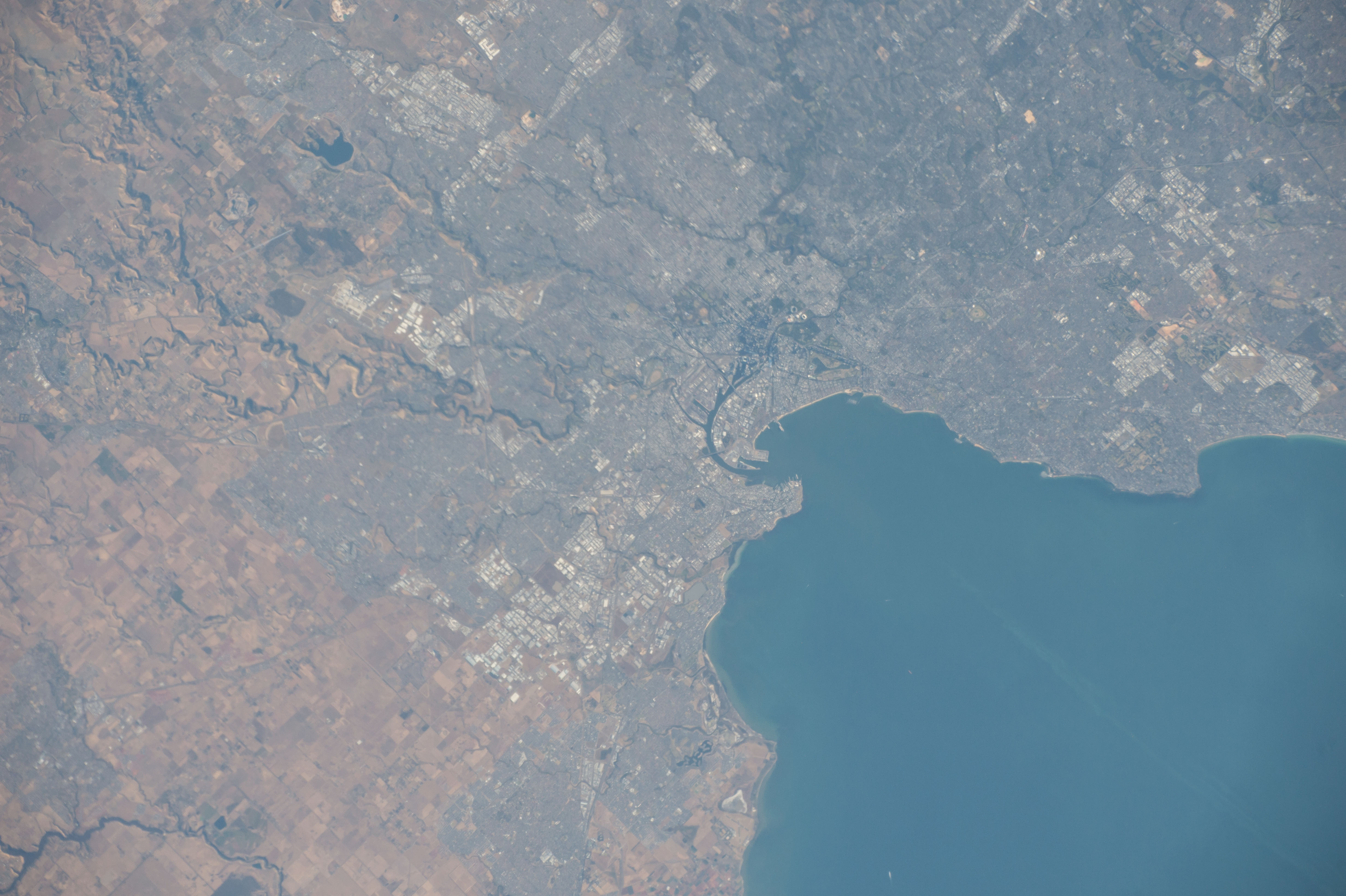 Satellite photo taken of the Melbourne metropolitan area by NASA, 18 December 2016.